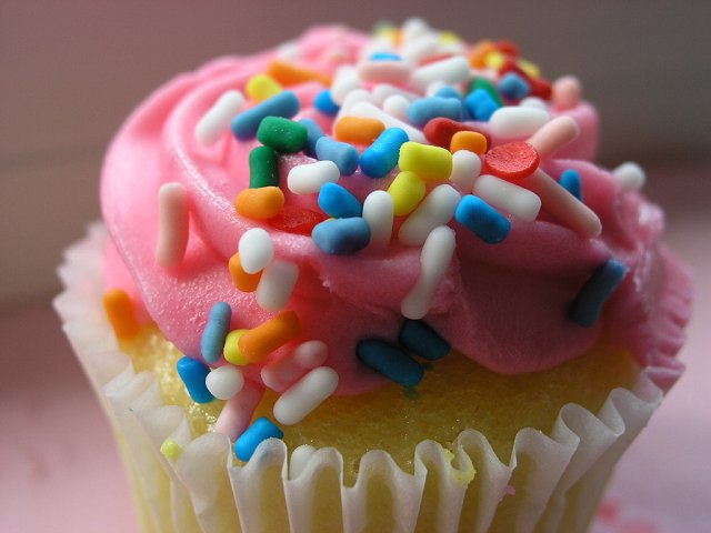 Close-up of cupcake with pink frosting and sprinkles.